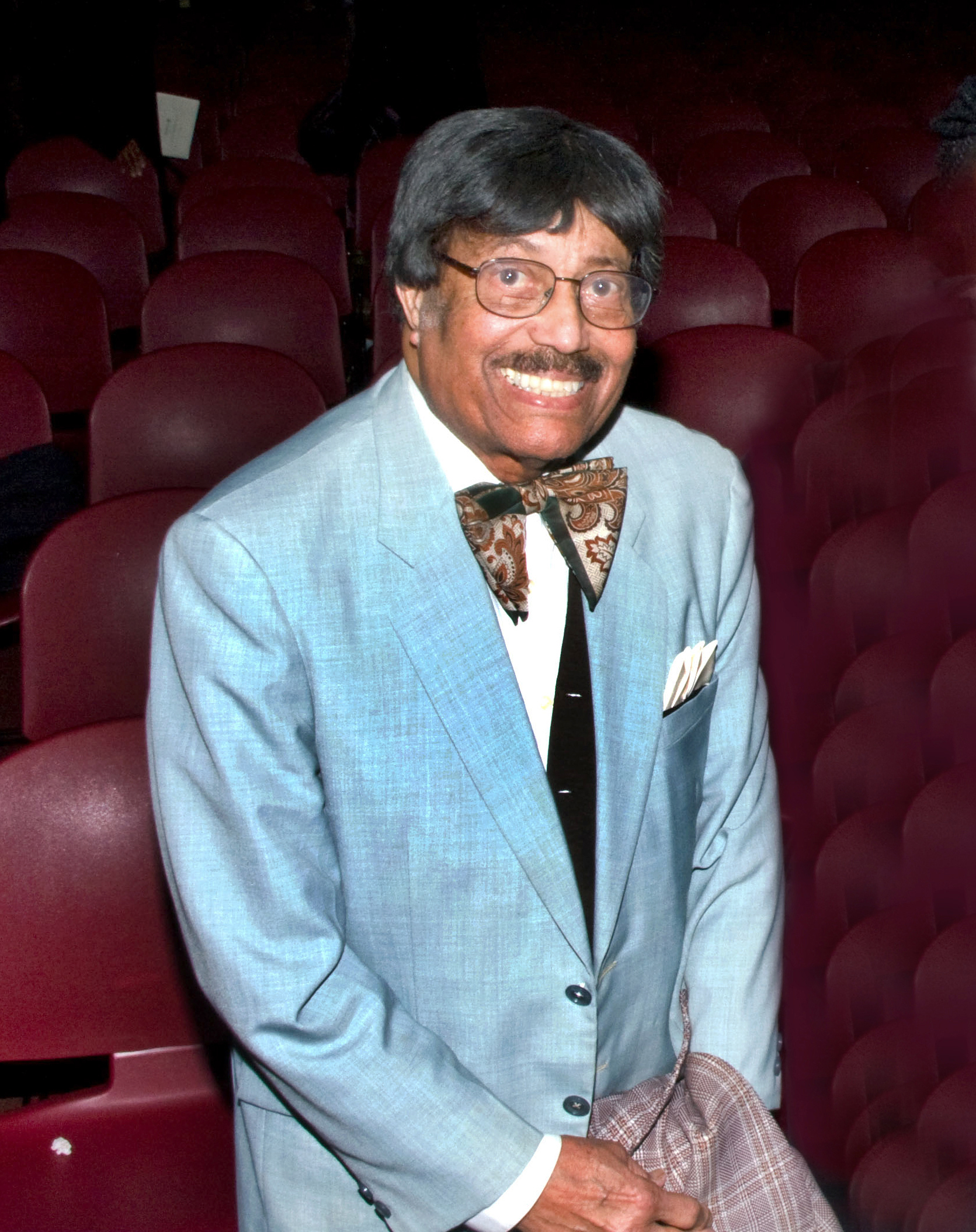 Dr Calvin Edouard Ward, photographed on April 19, 2011 by Vincent Bryant